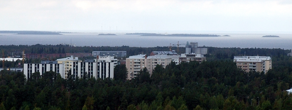 Alppila neighbourhood seen from the Puolivälinkangas water tower in Oulu, Finland).